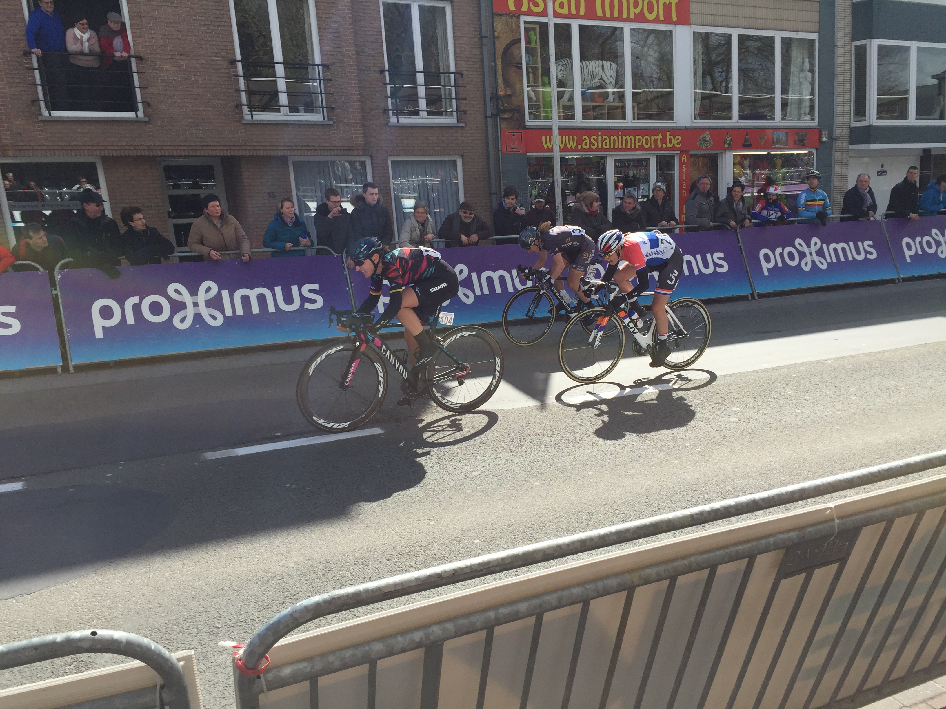 2016 Gent–Wevelgem (women)